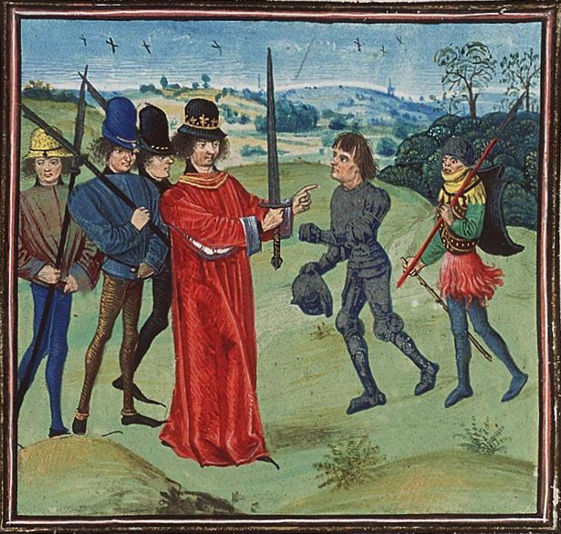 Institution of Baldwin I 'Bras de Fer', the first count of Flanders by Charles the Bald, the Frankish king Contents: Aegidius of Roya, Compendium historiae universalis Place of origin, date: Southern Netherlands, Dreux Jean, Master of Margaret of York, Jean Hennecart (illuminators); c. 1450-1460 Material: Vellum, ff. 296, 362x256 (232x159) mm, 35 lines, littera hybrida, Binding: 17th-century vellum; blind Decoration: 3 two-column miniatures (180/160x155 mm); 10 column miniatures (80/68x70/67 mm); 1 illustration in the margin; decorated initials with border decoration (ff. 1r, Ir, IIr, IIIr, XXIr, etc.); penwork initials with pen-flourishes throughout## Provenance: Made for David of Burgundy, bishop of Utrecht (d. 1496##); his half-brother Antony, the Great Bastard of Burgundy; his grandson Adolphe of Burgundy, Lord of Vere. Annotated in 1644 at Middelburg by M.Z. Boxhorn of Leiden. G. Meerman (cat. of 1756; d. 1771); by descentto his son J. Meerman (d. 1815); purchased in 1824 at the Meerman sale (lot 735) by W.H.J. van Westreenen